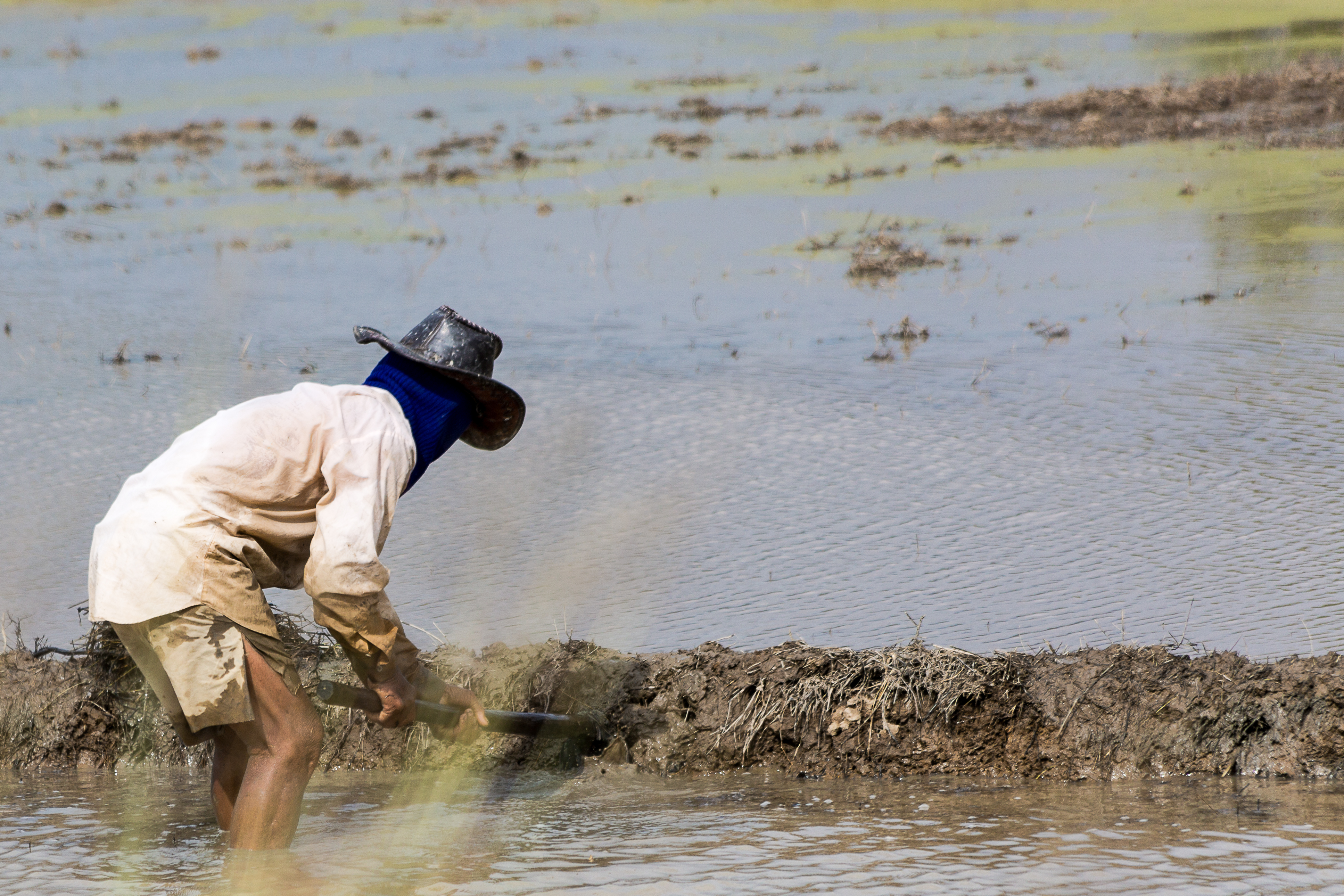 Kota Belud, Sabah: A farmer, working in his rice padi in the Tempassuk II rice padi sector